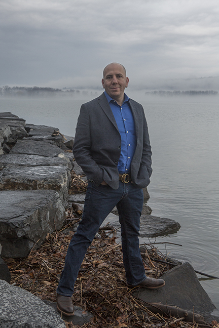 Author Alexi Zentner lives in Ithaca, N.Y., and teaches at Binghamton University.